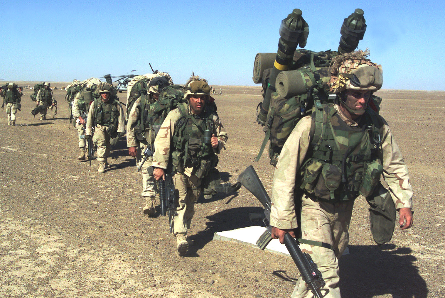 SOUTHERN AFGHANISTAN -- A Marine with the 15th Marine Expeditionary Unit (Special Operations Capable), Camp Pendleton, Calif., leads a column of Marines to a security position after seizing a Taliban forward-operating base Nov. 25. Marines from the 15th and 26th MEU are currently deployed to the region in support of Operation Enduring Freedom. Thirteenth MEU Marines, embarked on USS Bonhomme Richard, left San Diego Dec. 1 enroute to the Arabian Sea in support of Operation Enduring Freedom. U.S. Marine photo by Sgt. Joseph Chenelly.